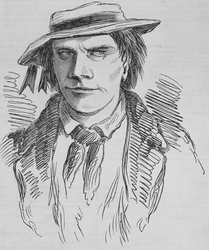 Wood engraving by Eugene Montagu Scott, held at the State Library of Victoria. As the artist died in 1909 this engraving is not subject to copyright and is therefore in the public domain.